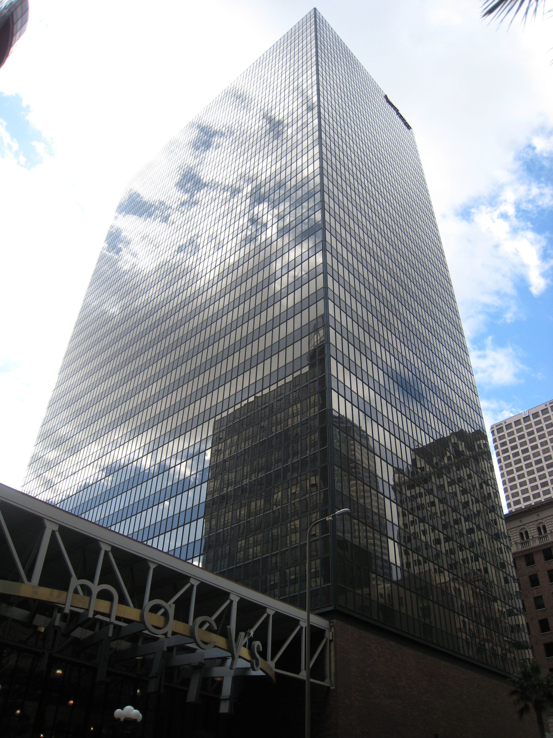 MCI Center building in Downtown Los Angeles, California - The building has the headquarters of Metrolink